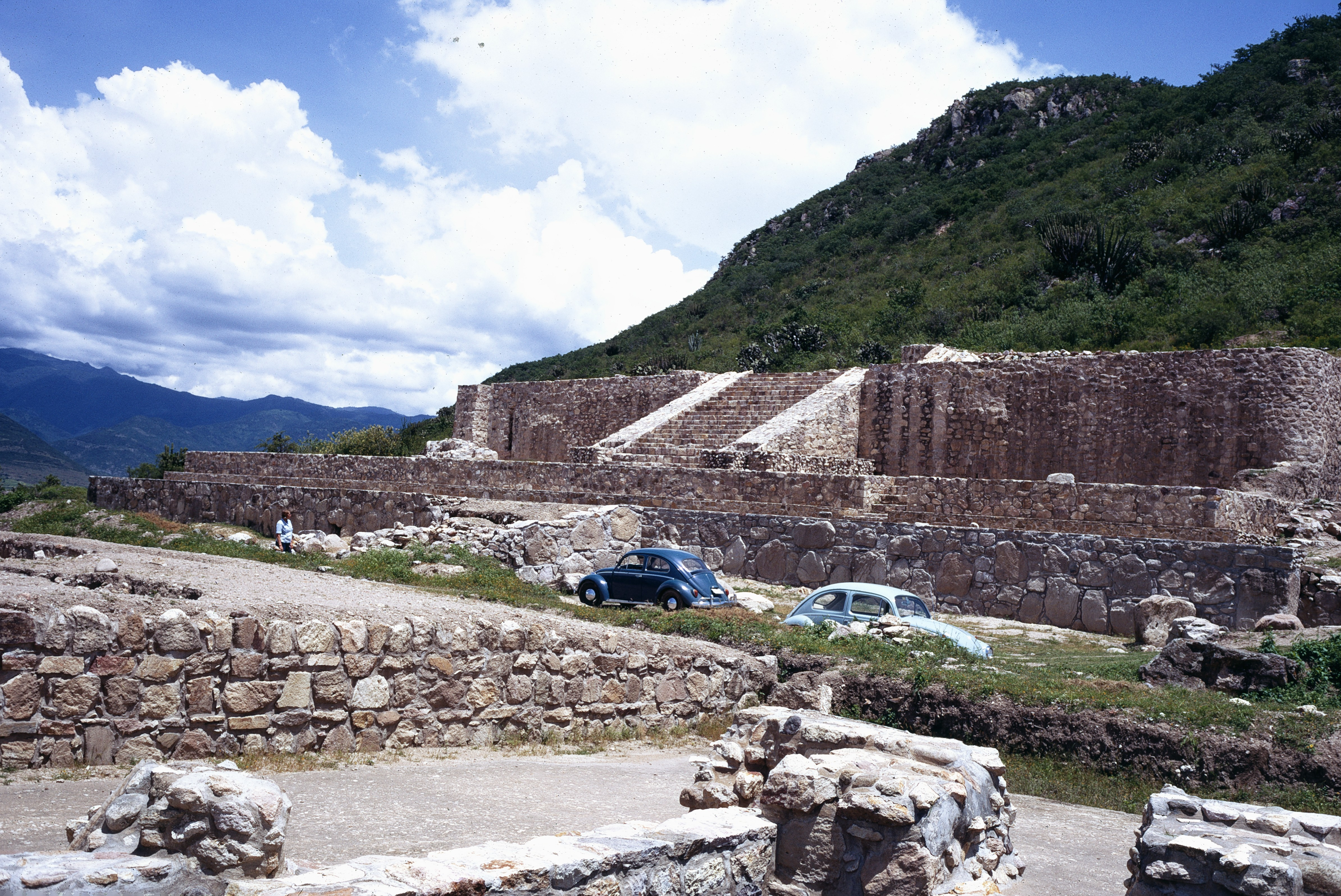 Conjunto A